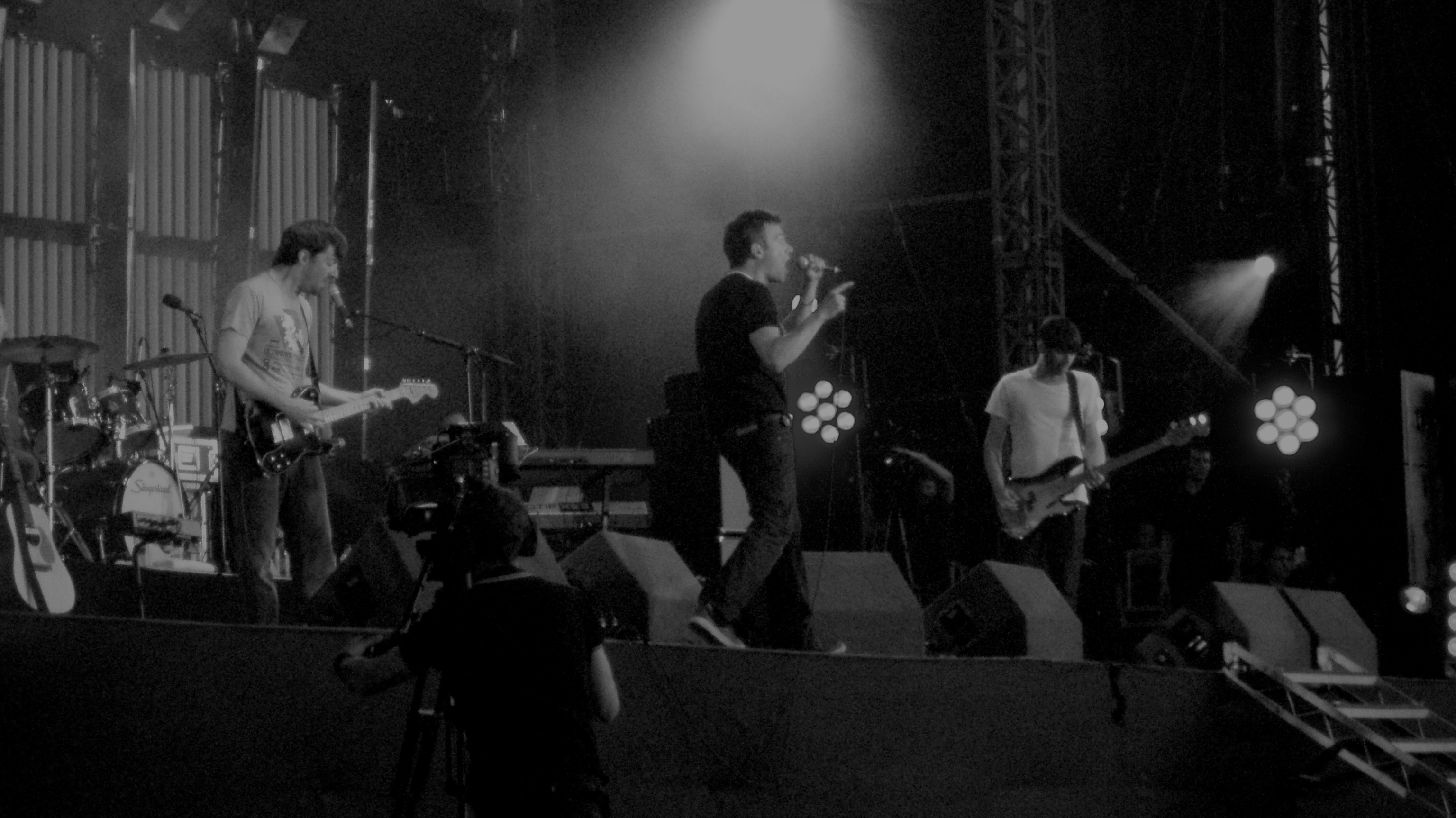 Hyde Park, 3rd July 2009